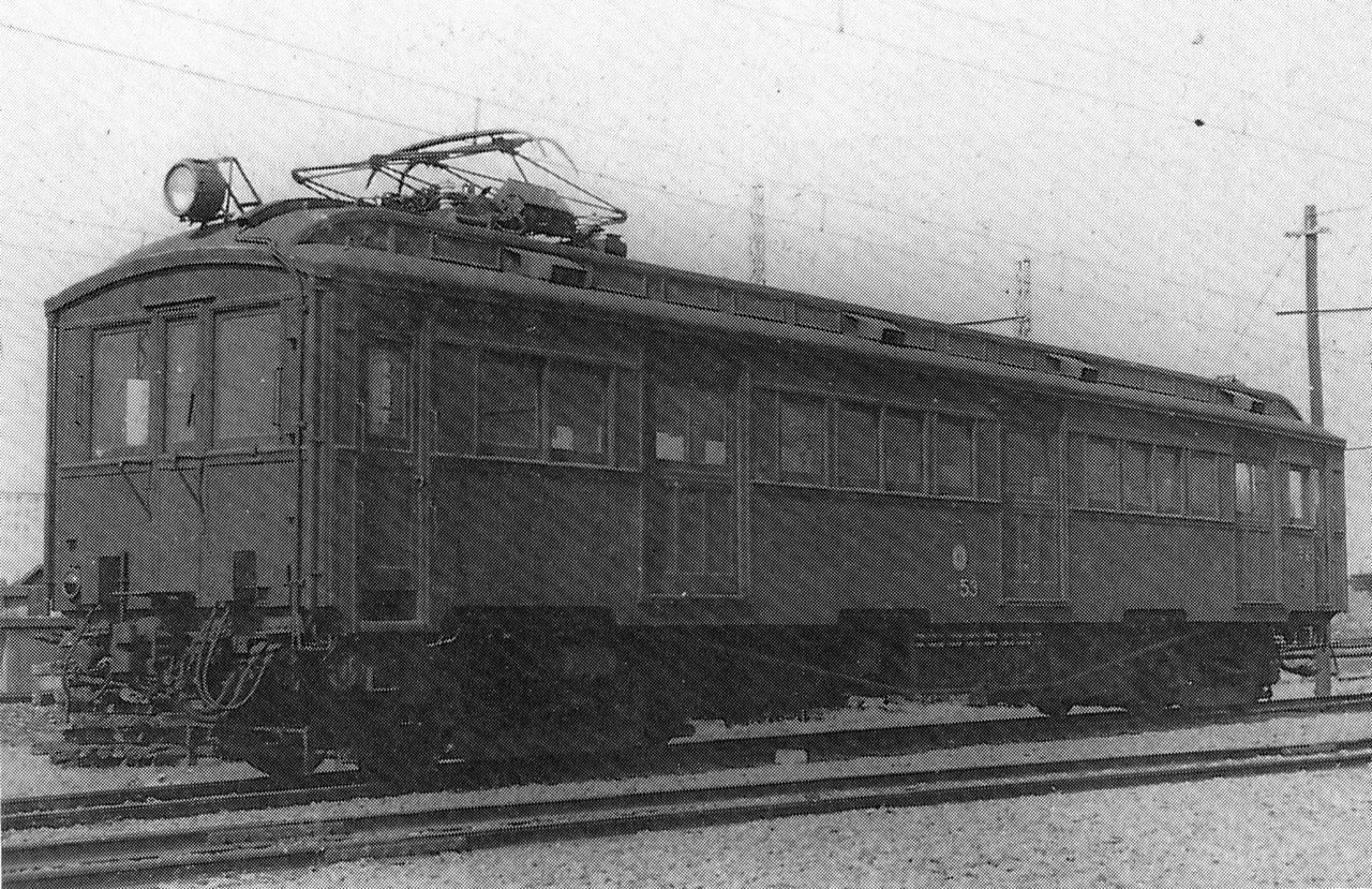 Odawara Express Railway No.53,EMU Type 51